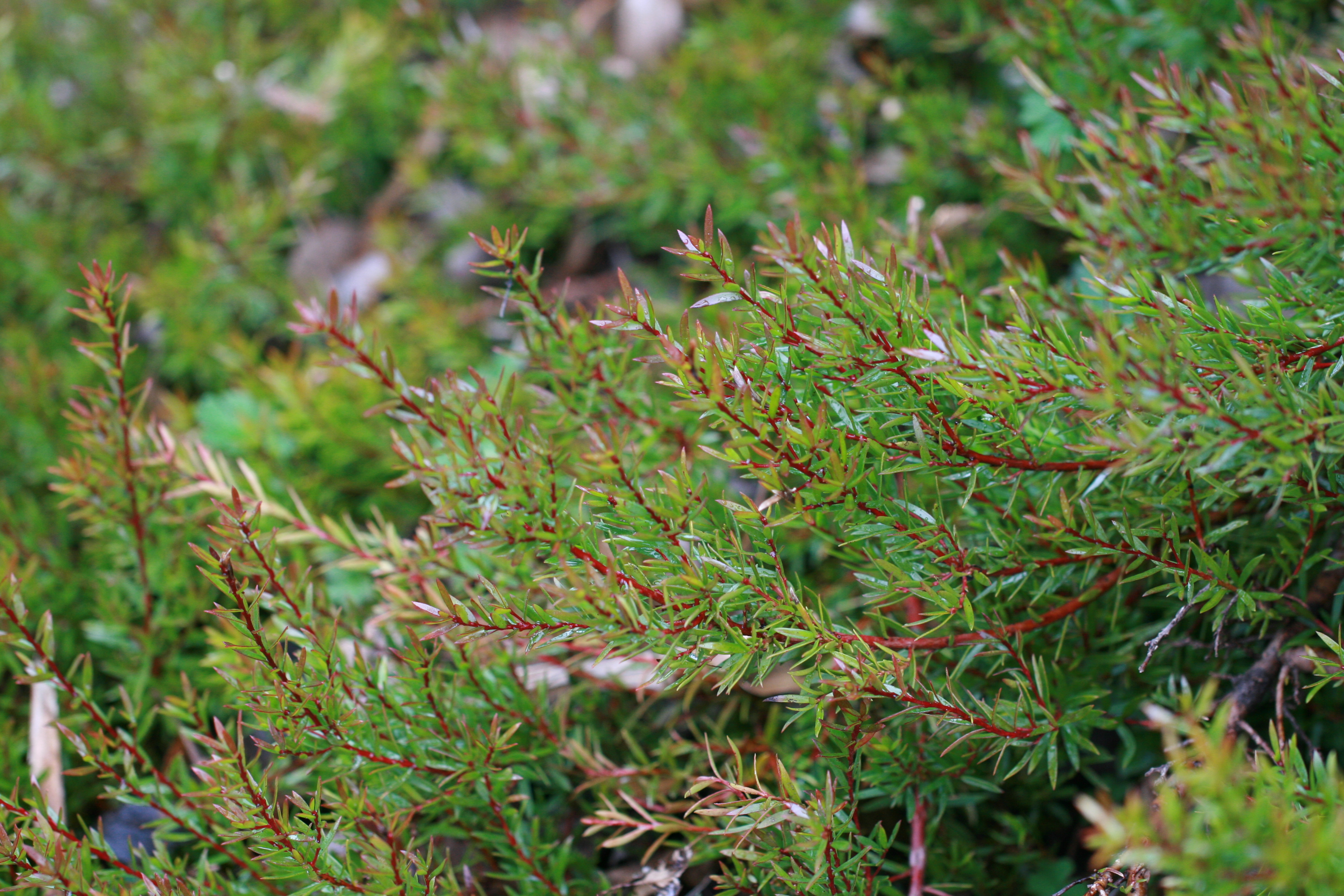 Persoonia oxycoccoides in the Mount Tomah botanic gardens, NSW, Australia.